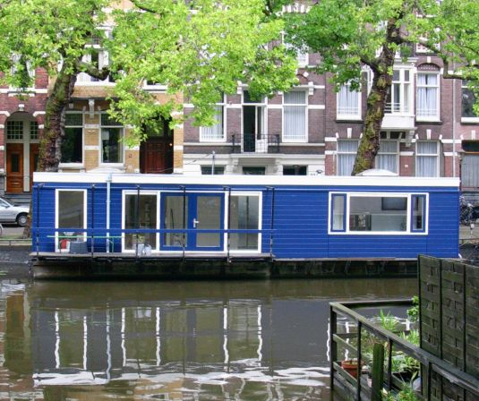 Wohnboot in Amsterdam